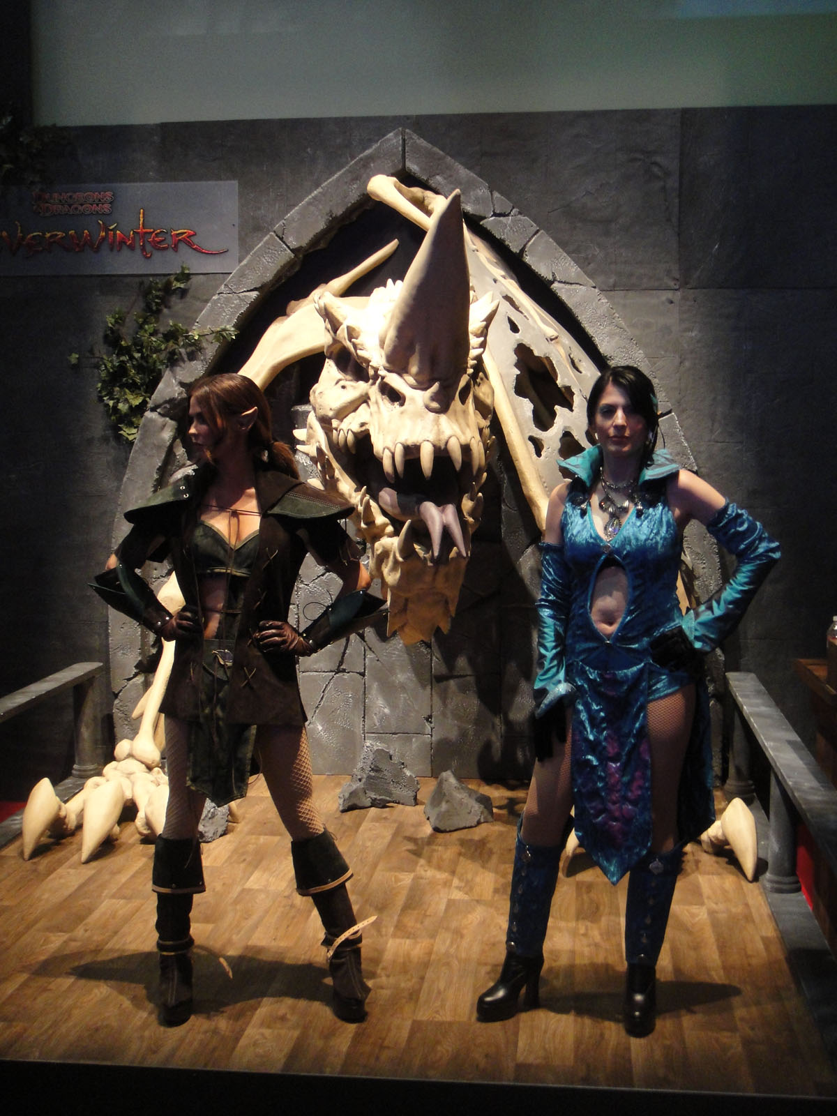 Taken on June 5, 2012 Sony DSC-T900